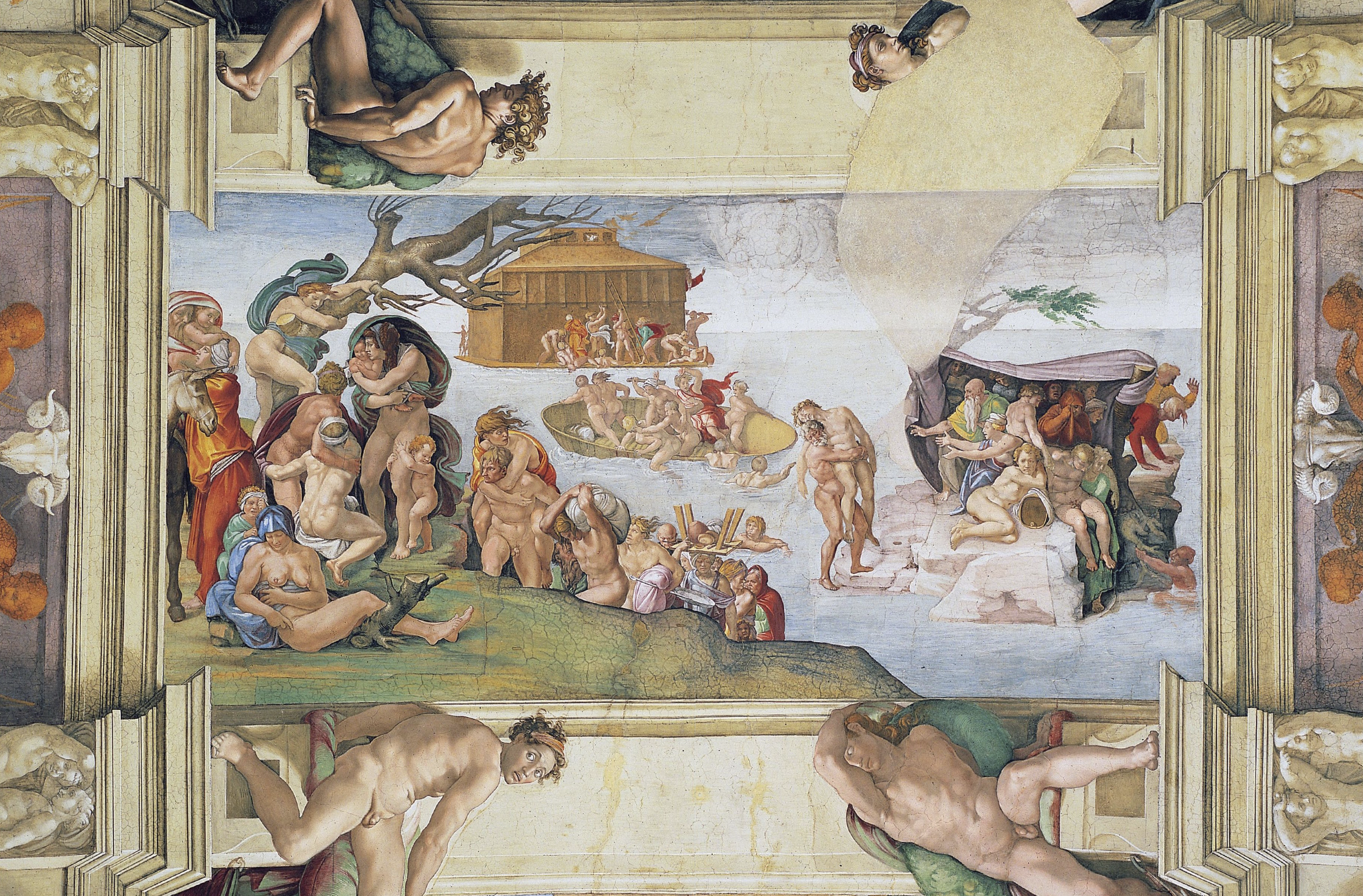 Sistine chapel ceiling.